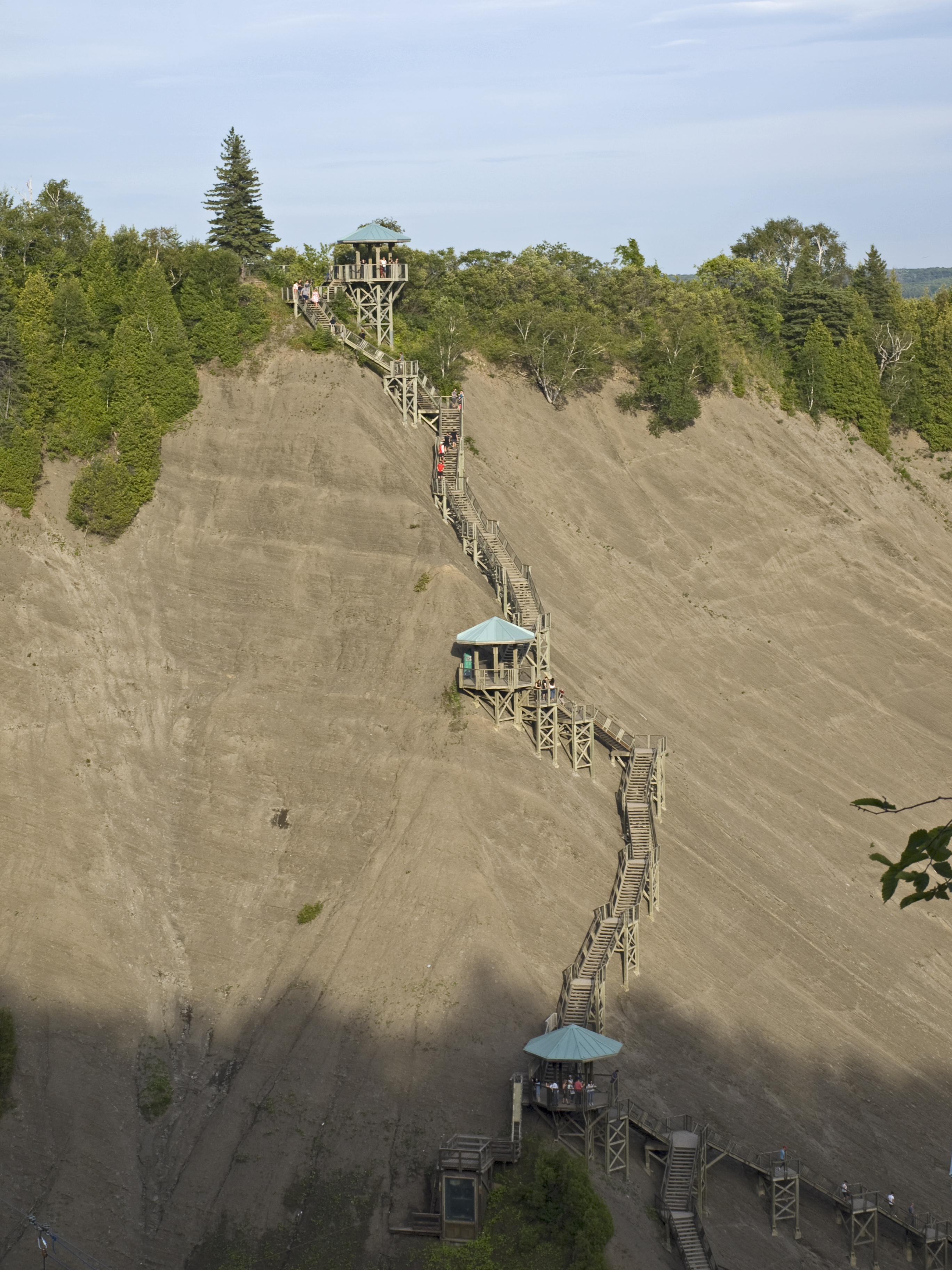 Staircase at the Montmorency waterfall